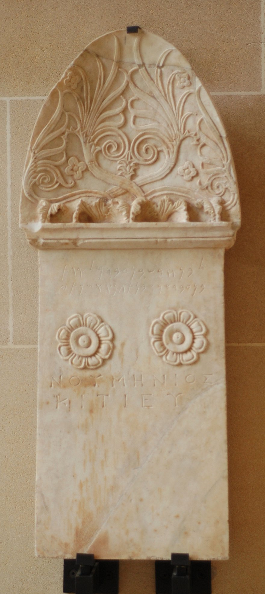 Funerary stele, ca. 350–300 BC. Marble, found in the grove of the Academy, Athens. Bears a Phoenician inscription: “To Benhodesh, son of ʿAbdmilqart, son of ʿAbdshamash, son of TGNS, men of Kition” and a Greek inscription: ΝΟΥΜΗΝΙΟΣ ΚΙΤΙΕΥ / NOUMÊNIOS KITIEU .